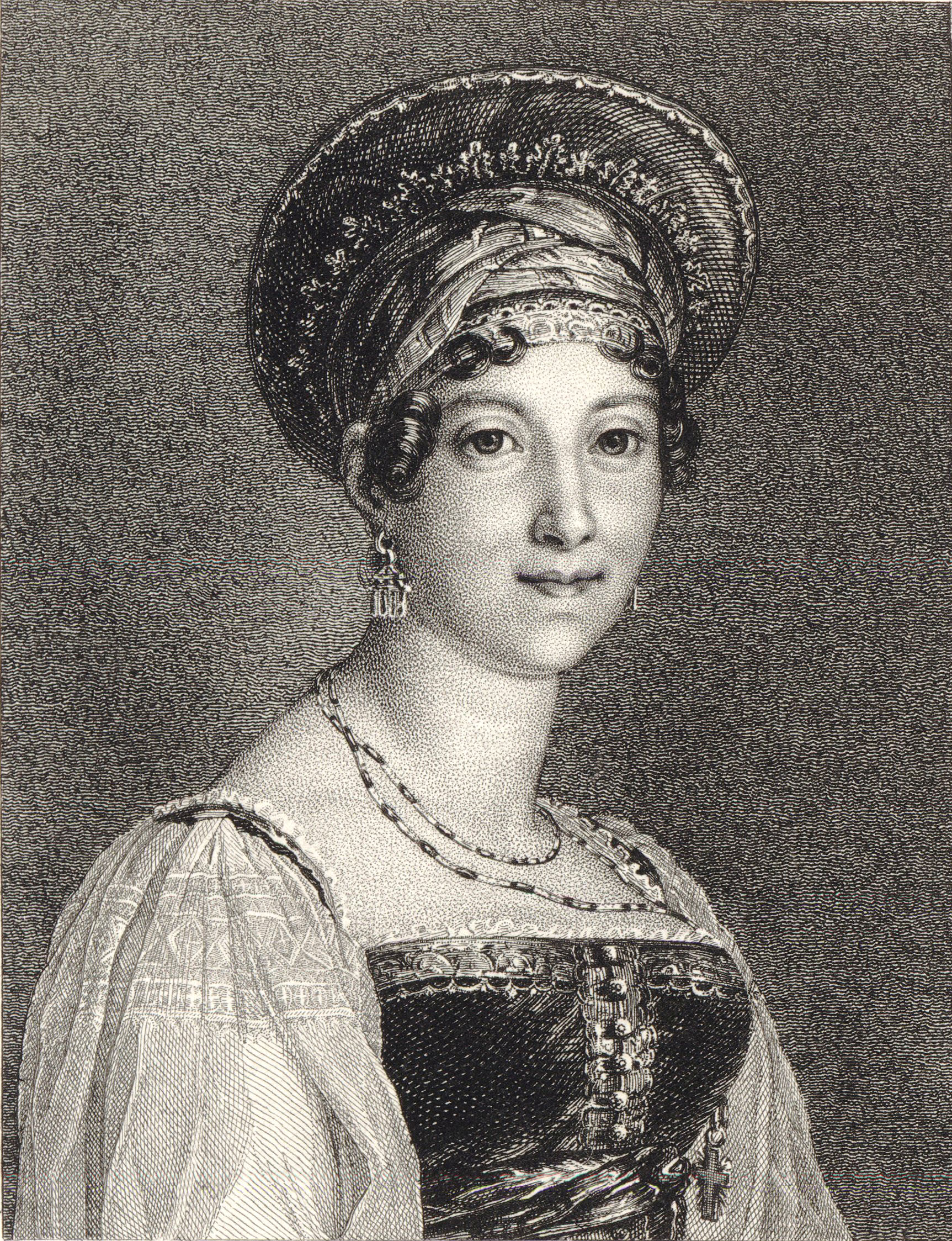 Portrait of Anne-Francoise-Hippolyte Boutet (1779-1847), French comic actress and playwright known as Mademoiselle Mars (Paris, c. 1820). Original caption (removed): "Nach dem Leben gezeichnet – Demoiselle Mars" ("Drawn from life – Mademoiselle Mars").